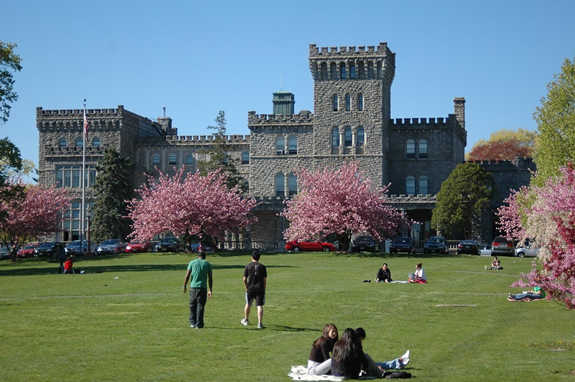 Manhattanville Castle in the spring.